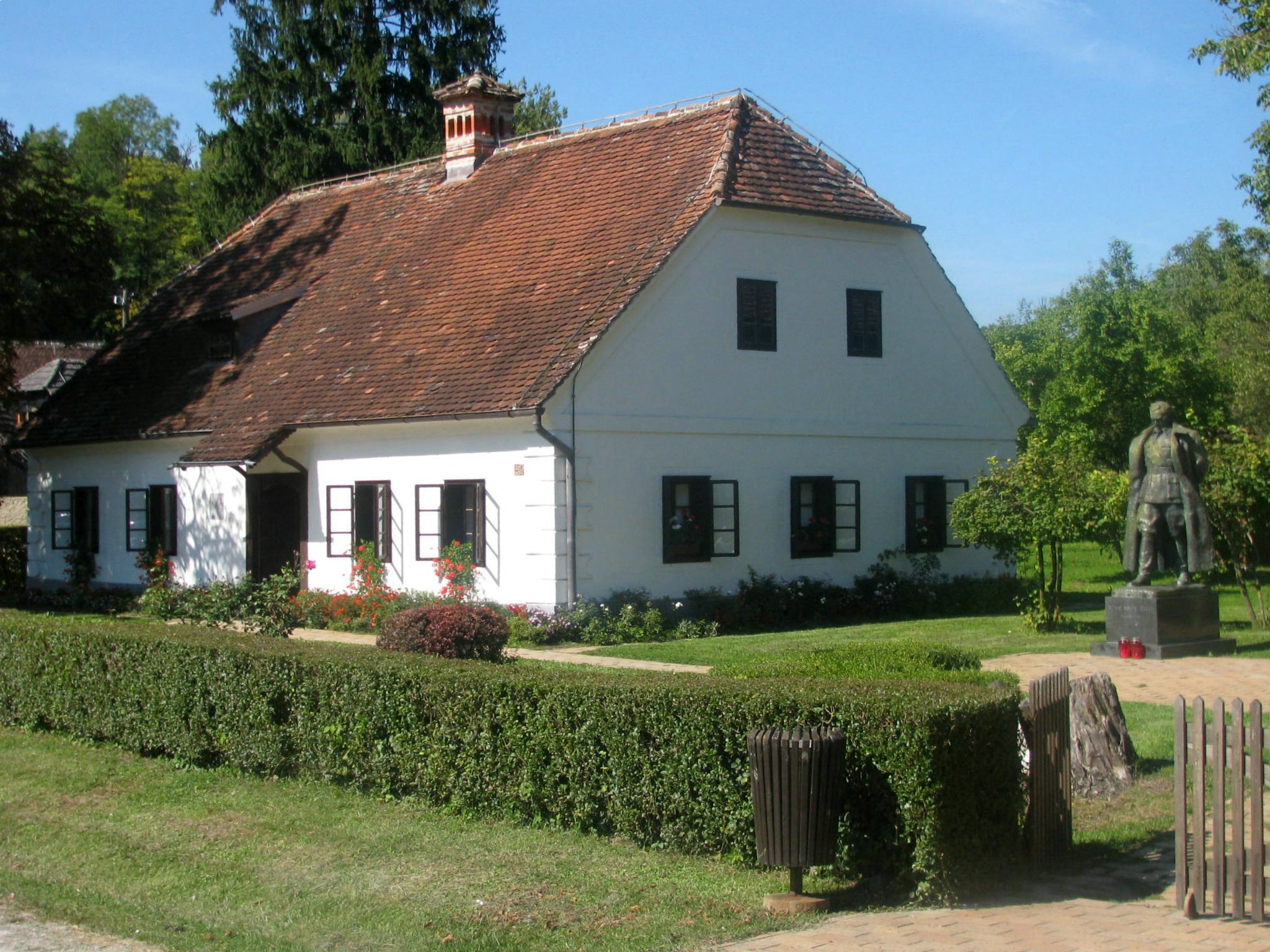 Birth house of Josip Broz TITO